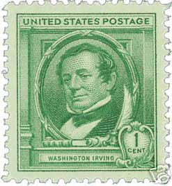 US stamp honoring Washington Irving